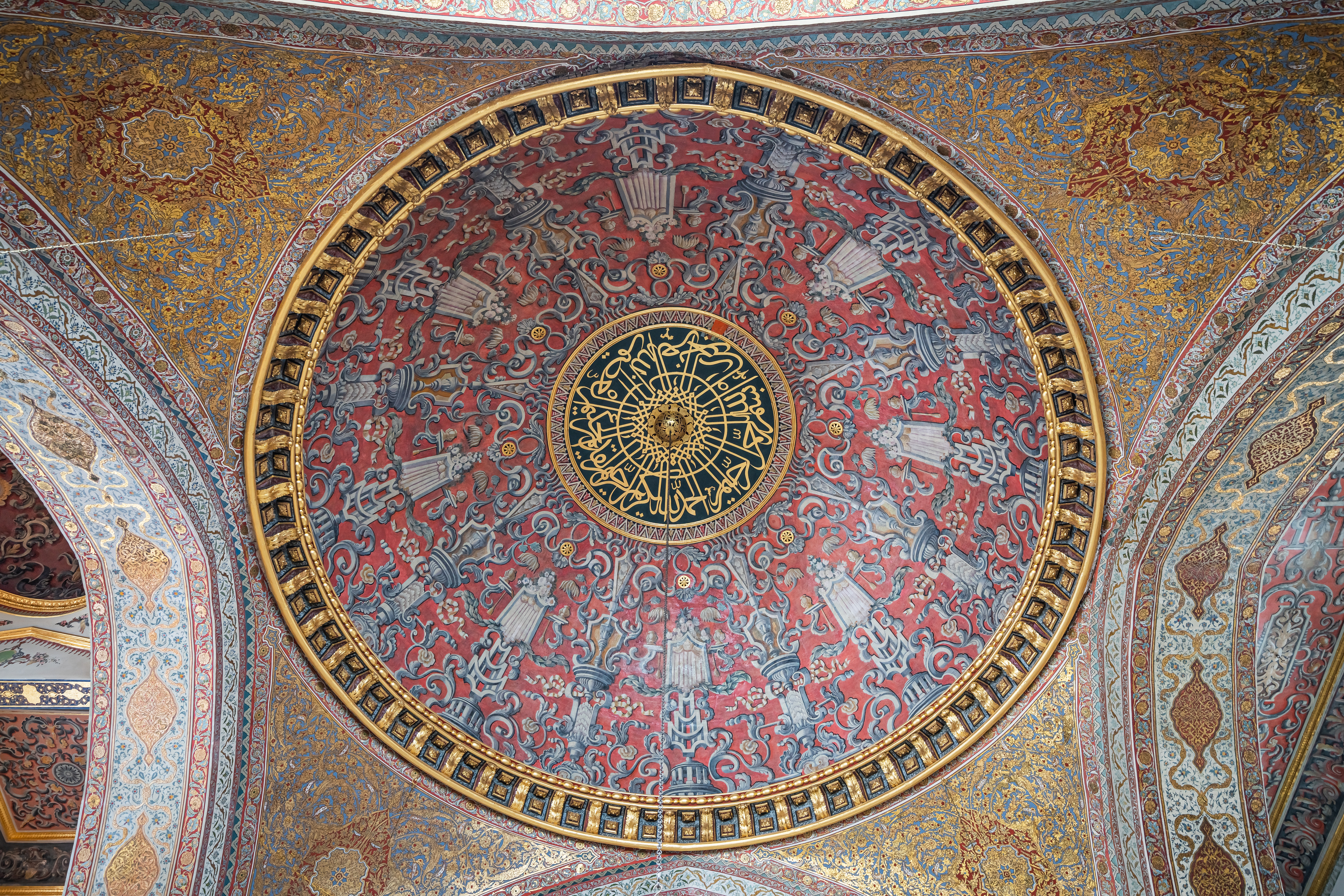 Dome of the Imperial Hall in Harem of Topkapı Palace in Istanbul, Turkey